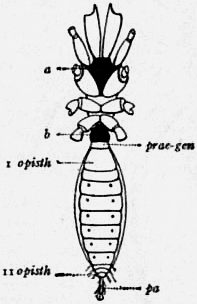 Schizomus crassicaudatus, one of the Tartarid Pedipalpi. Ventral view of a female with the appendages cut short near the base. a, Prosternum of prosoma. b, Metasternum of prosoma. prae-gen, The prae-genital somite. 1 opisth, First somite of the opisthosoma. 11 opisth, Eleventh somite of the opisthosoma. pa, Post-anal lobe of the female(Original drawing by Pickard—Cambridge, directed by Pocock.)